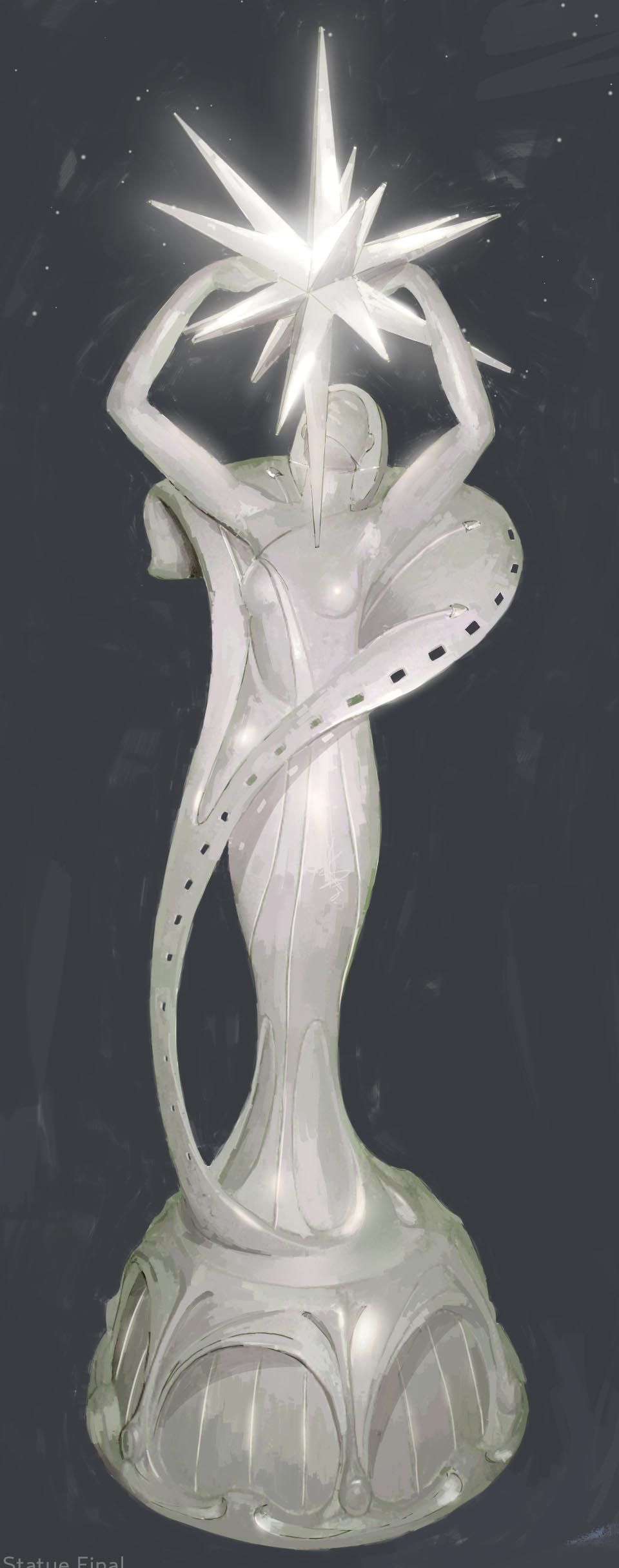 picture trophee